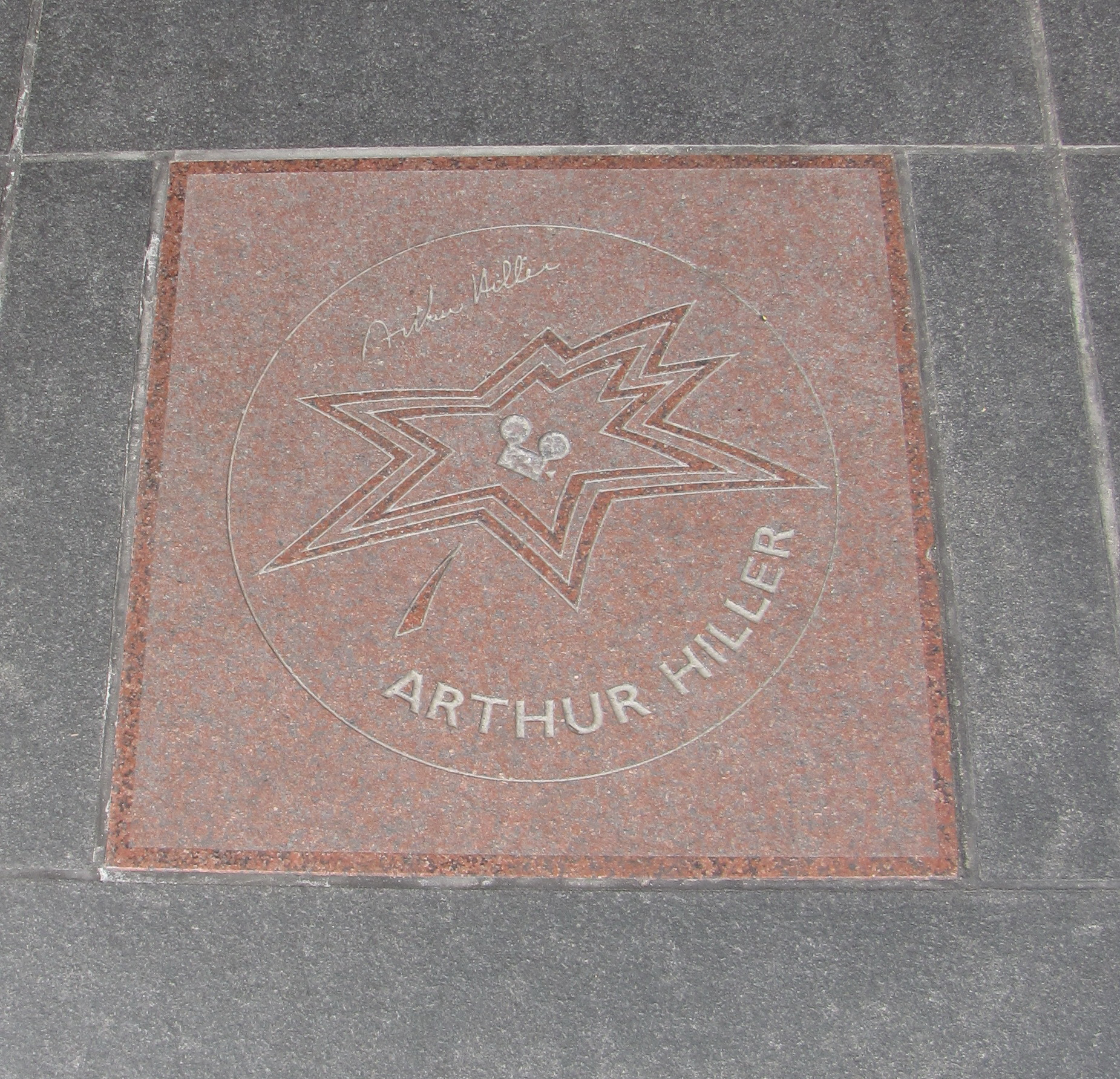 Arthur Hiller's star on Canada's Walk of Fame